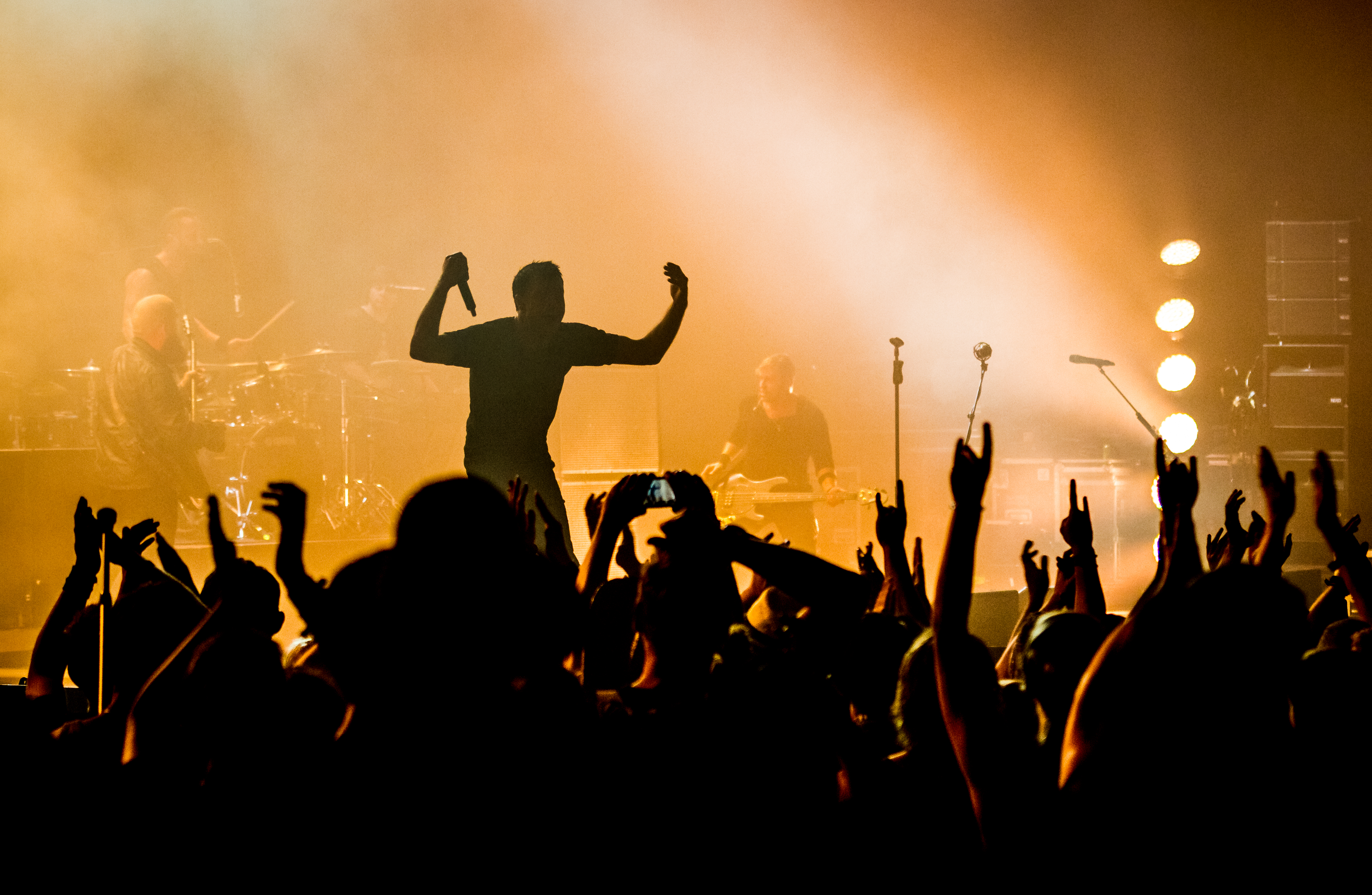 Three Days Grace - Rock am Ring 2015